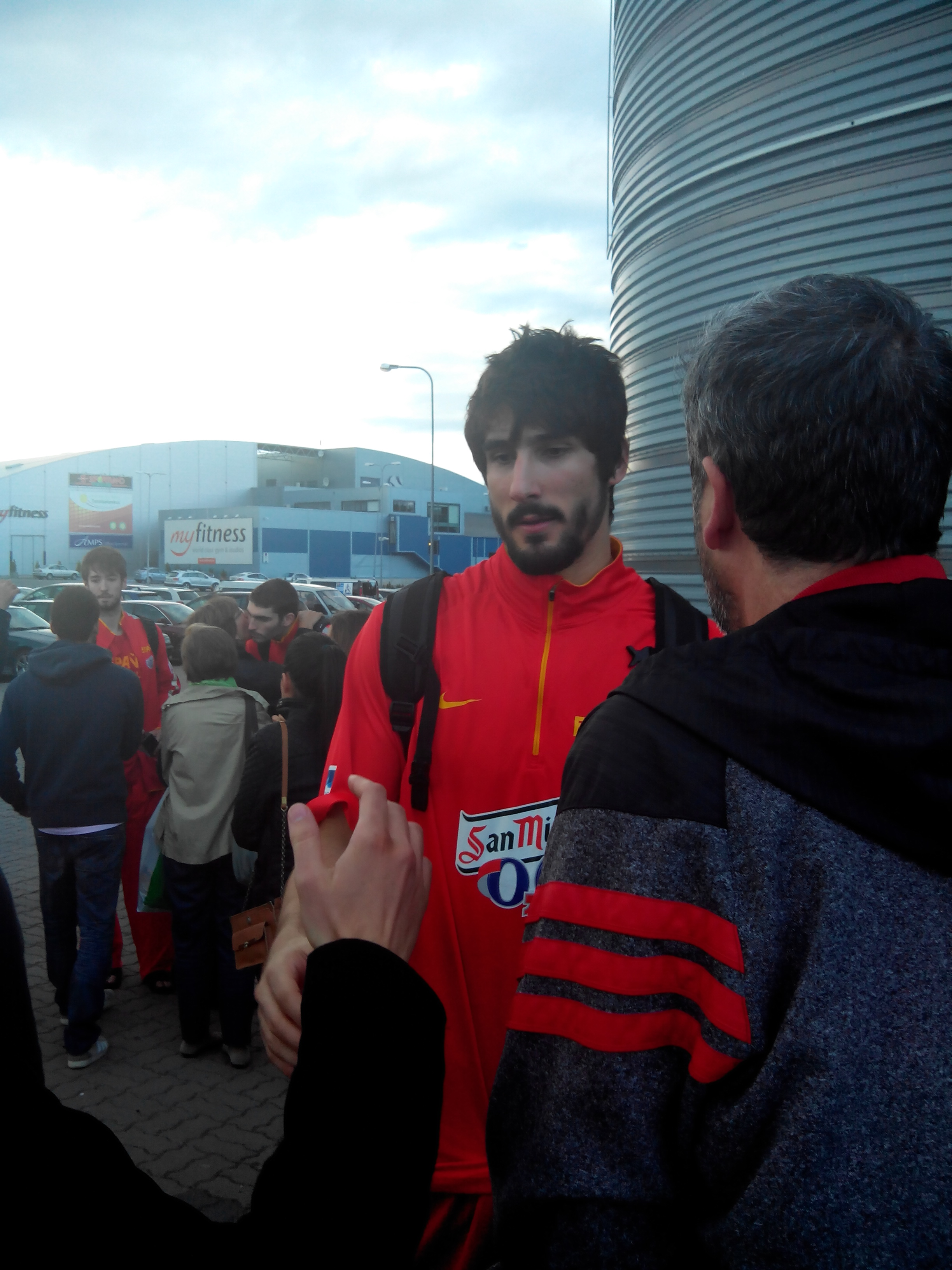 España